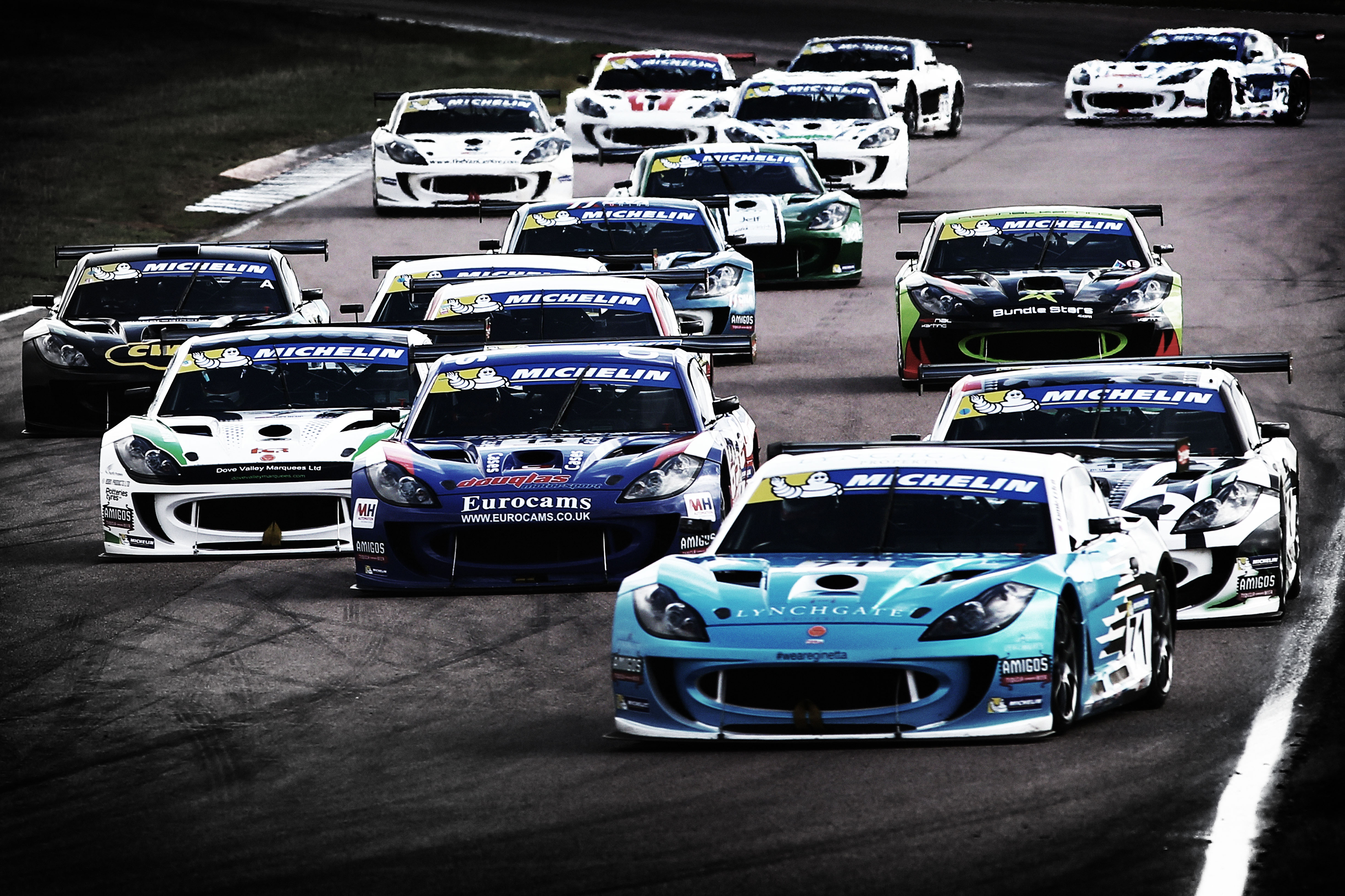 Jamie Orton leads the Michelin Ginetta G55 GT4 SuperCup at Rockingham Motor Speedway in 2016.